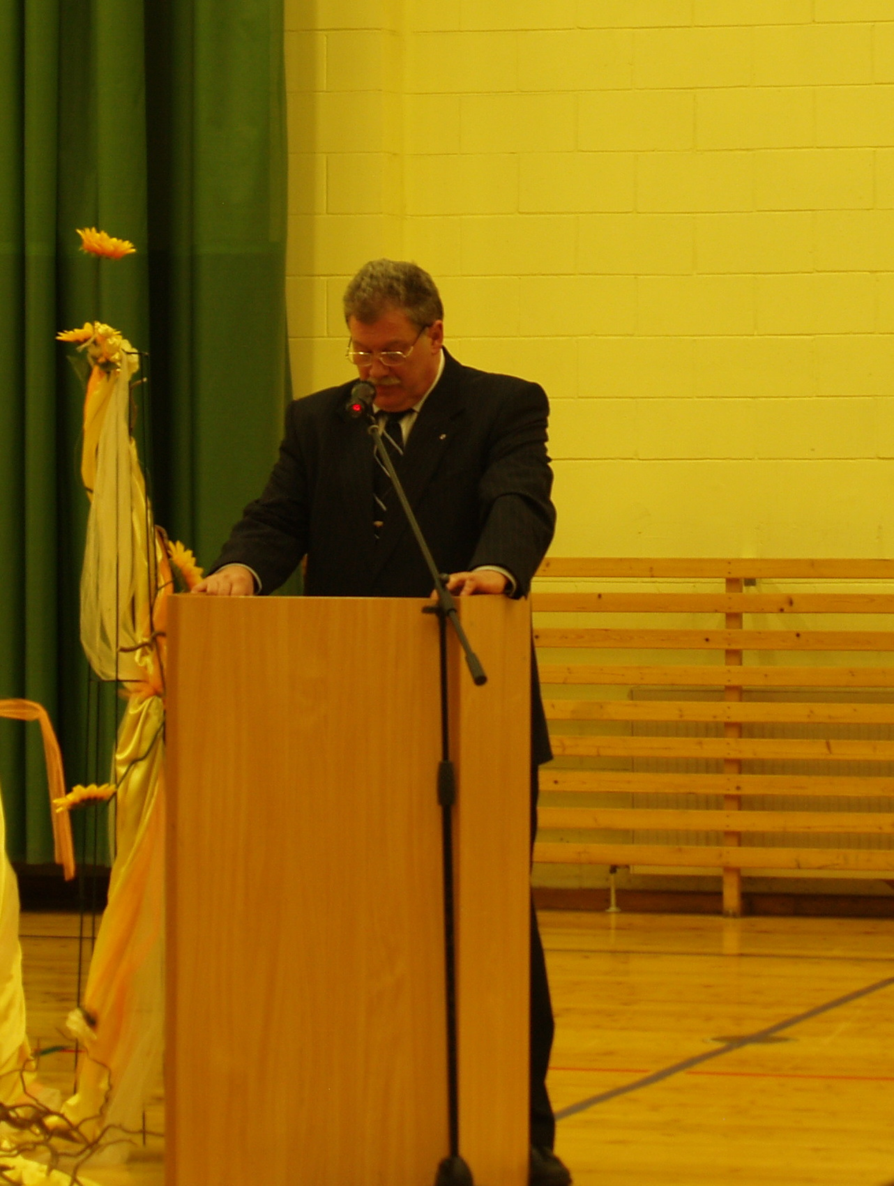 Vello Jõgisoo, governator (?) of Kose Parish, taking a speech.